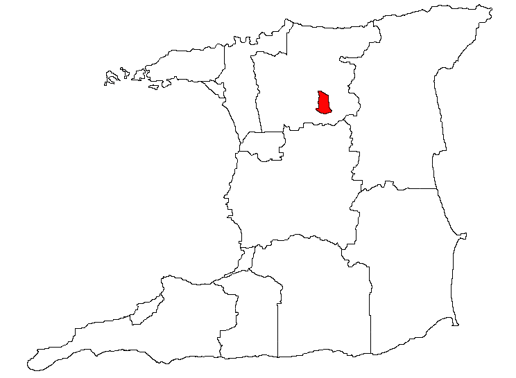 Location map of the Borough of Arima, Trinidad and Tobago